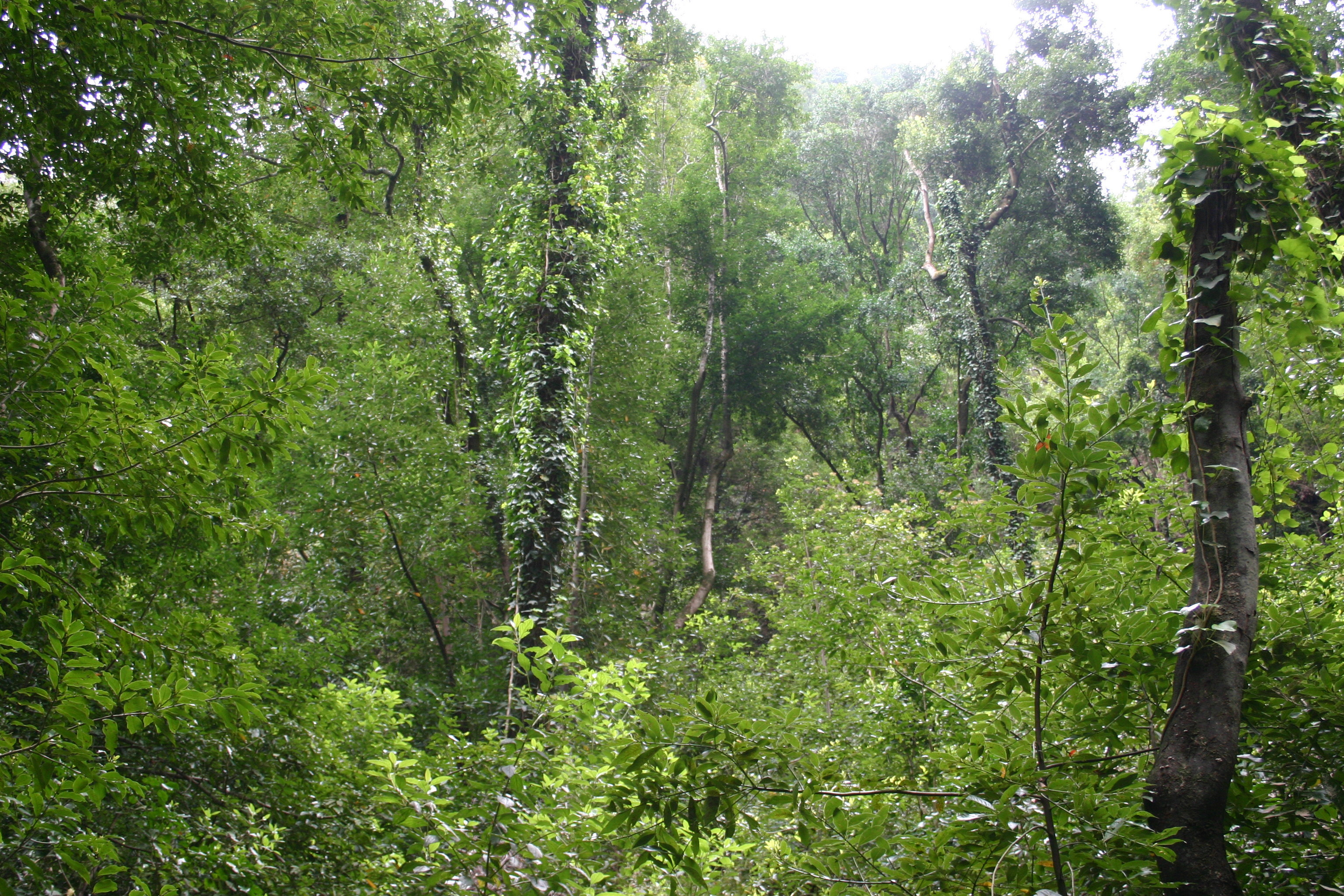 Laurisilva (mixed laurel forest), La Palma, Canary Islands